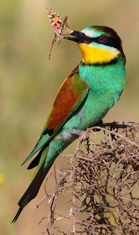 Bee-eater, perched with a Painted Lady butterfly in its beak